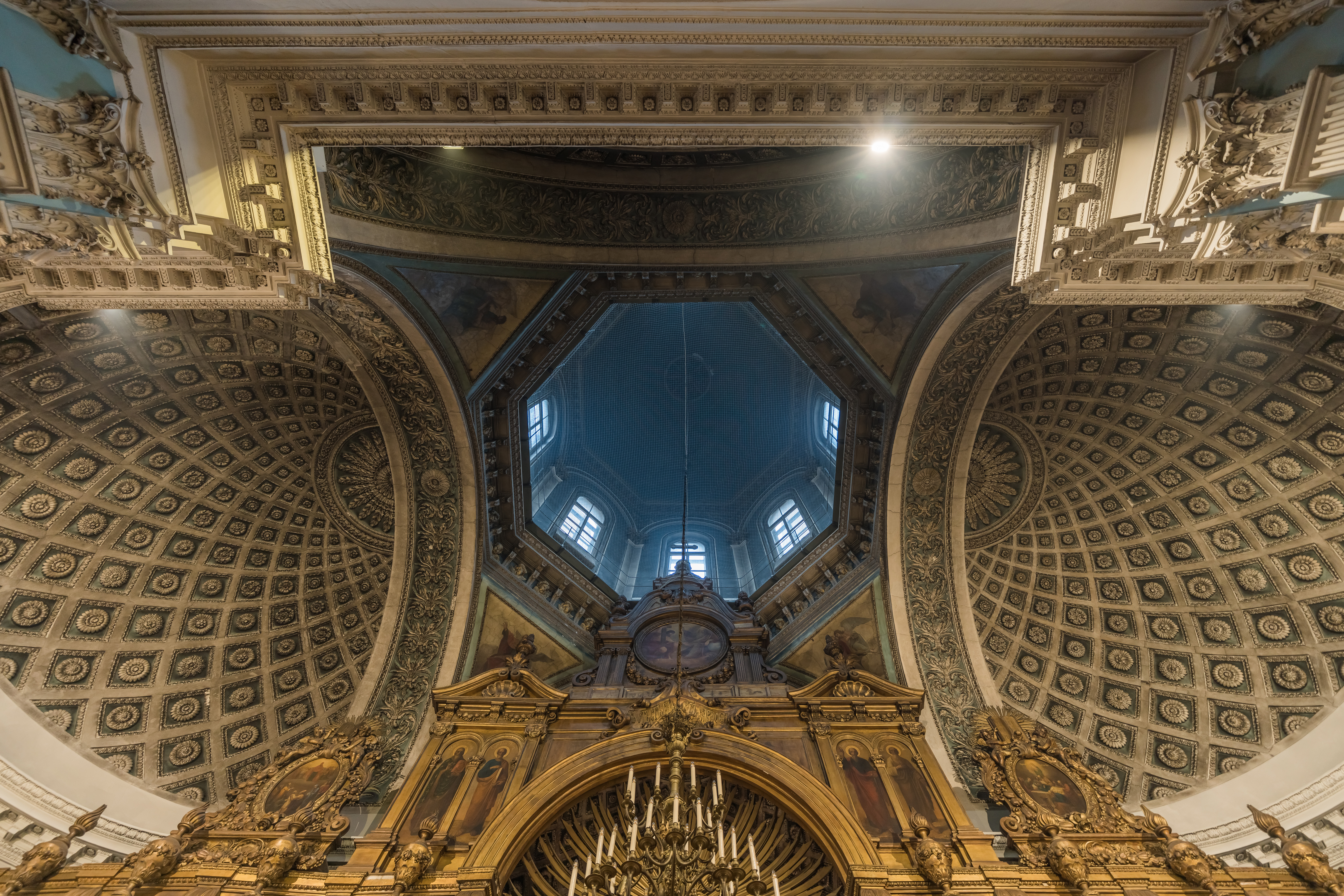 Interior of St. Andrew Cathedral on Vasilievsky Island in Saint Petersburg, Russia